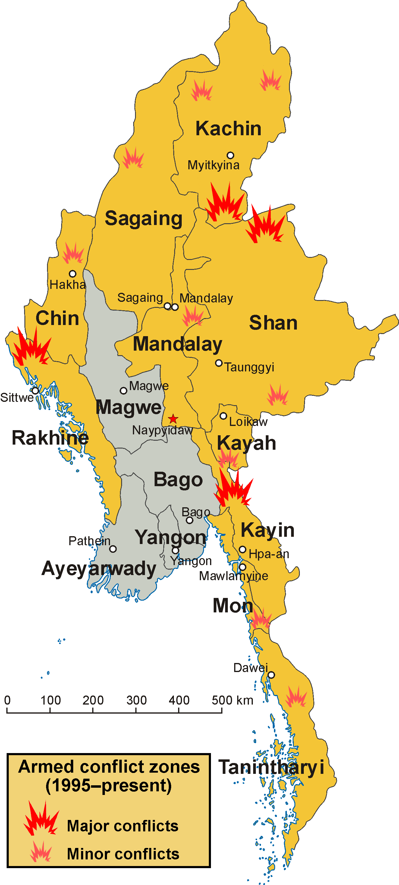 Map of armed conflict zones in Myanmar (Burma). States and regions affected by fighting during and after 1995 are highlighted in yellow.